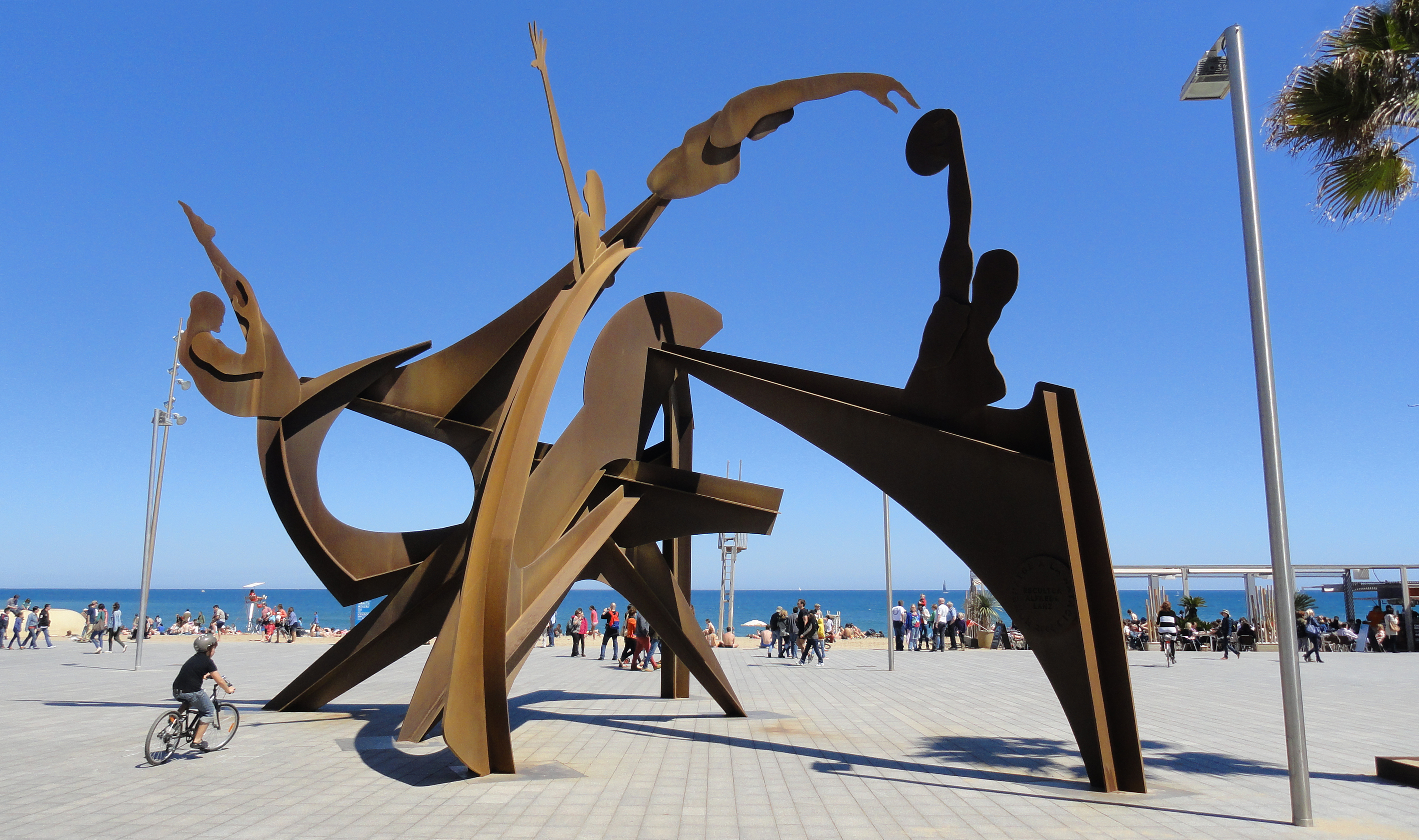 Alfredo Lanz, 2004, Homenatge a la natació, sculpture, Barcelona